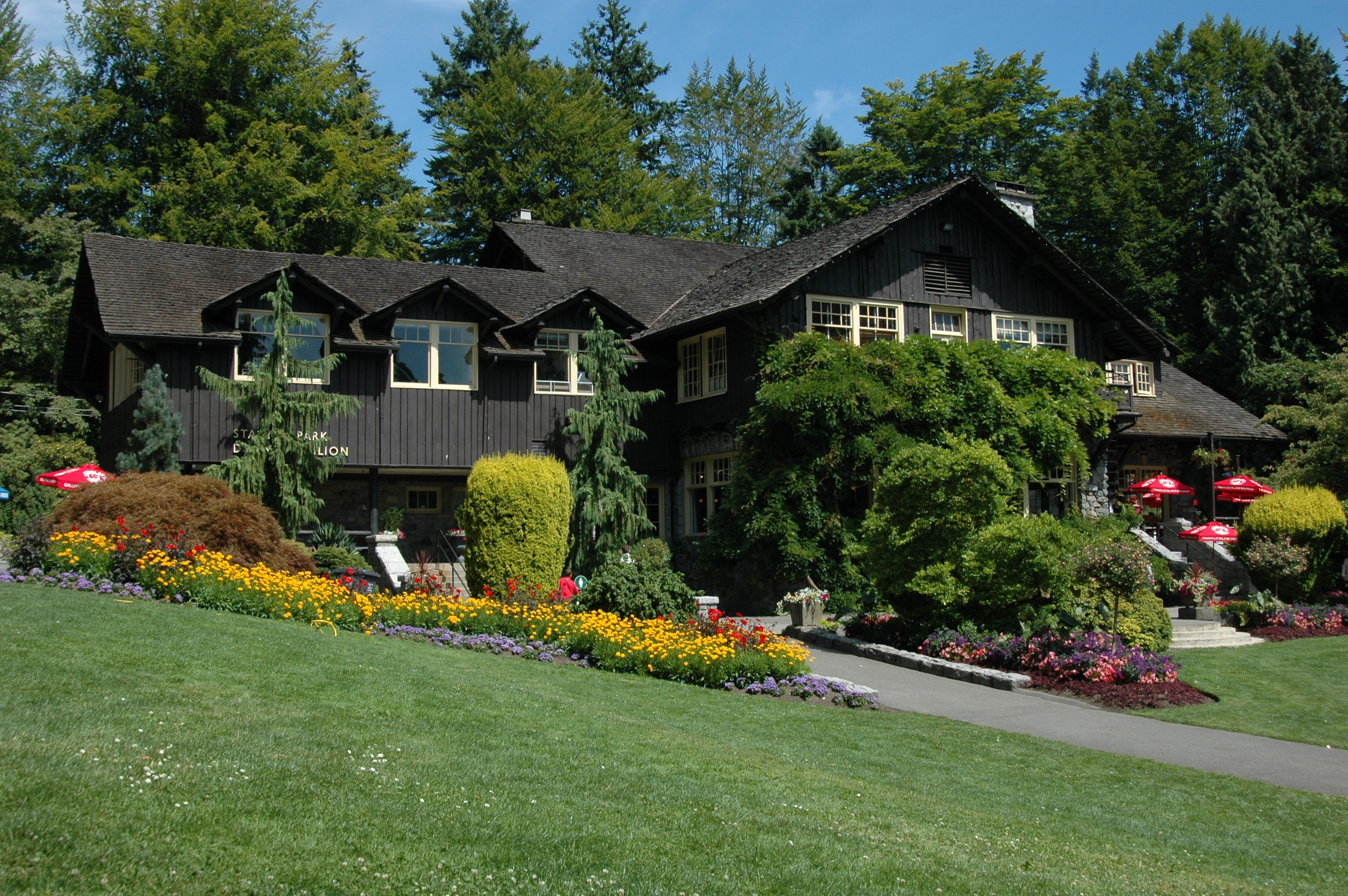 Stanley Park Pavilion, Vancouver BC